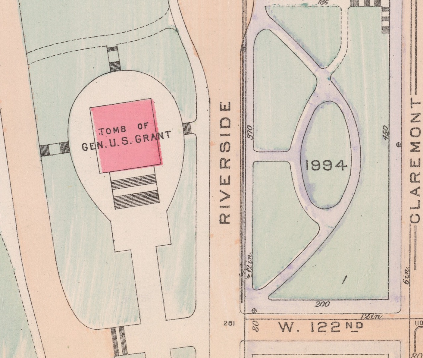 Plate 138 from: Bromley, George W. and Walter S. Atlas of the Borough of Manhattan City of New York. Desk and library edition. (New York: G. W. Bromley and Co., 1916) FOR KEY TO MAP SYMBOLS, CLICK HERE.